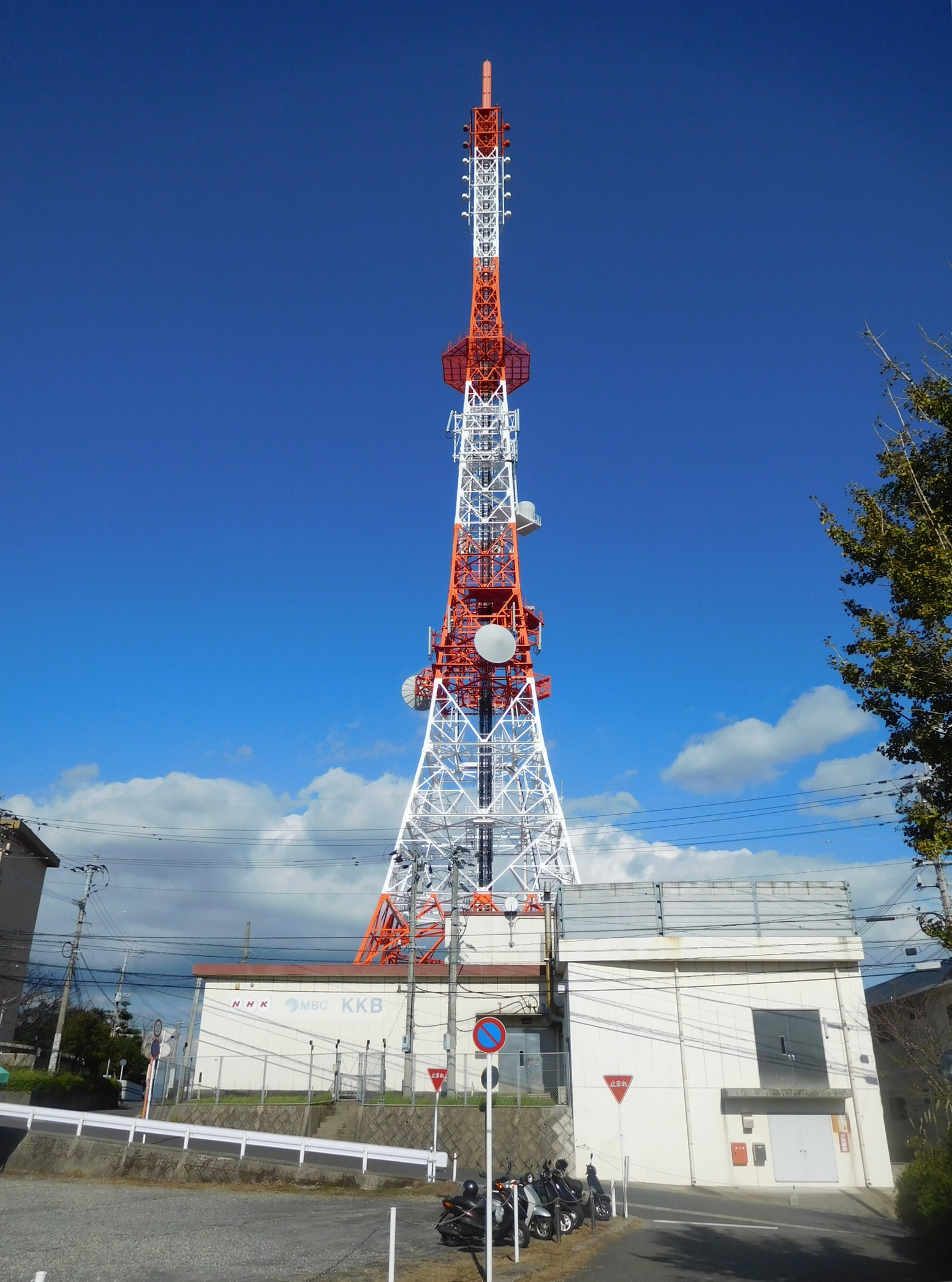 KKB (Kagoshima Broadcasting) Kagoshima Transmitting Tower in 2015 (Murasakibaru, Kagoshima City, Japan)